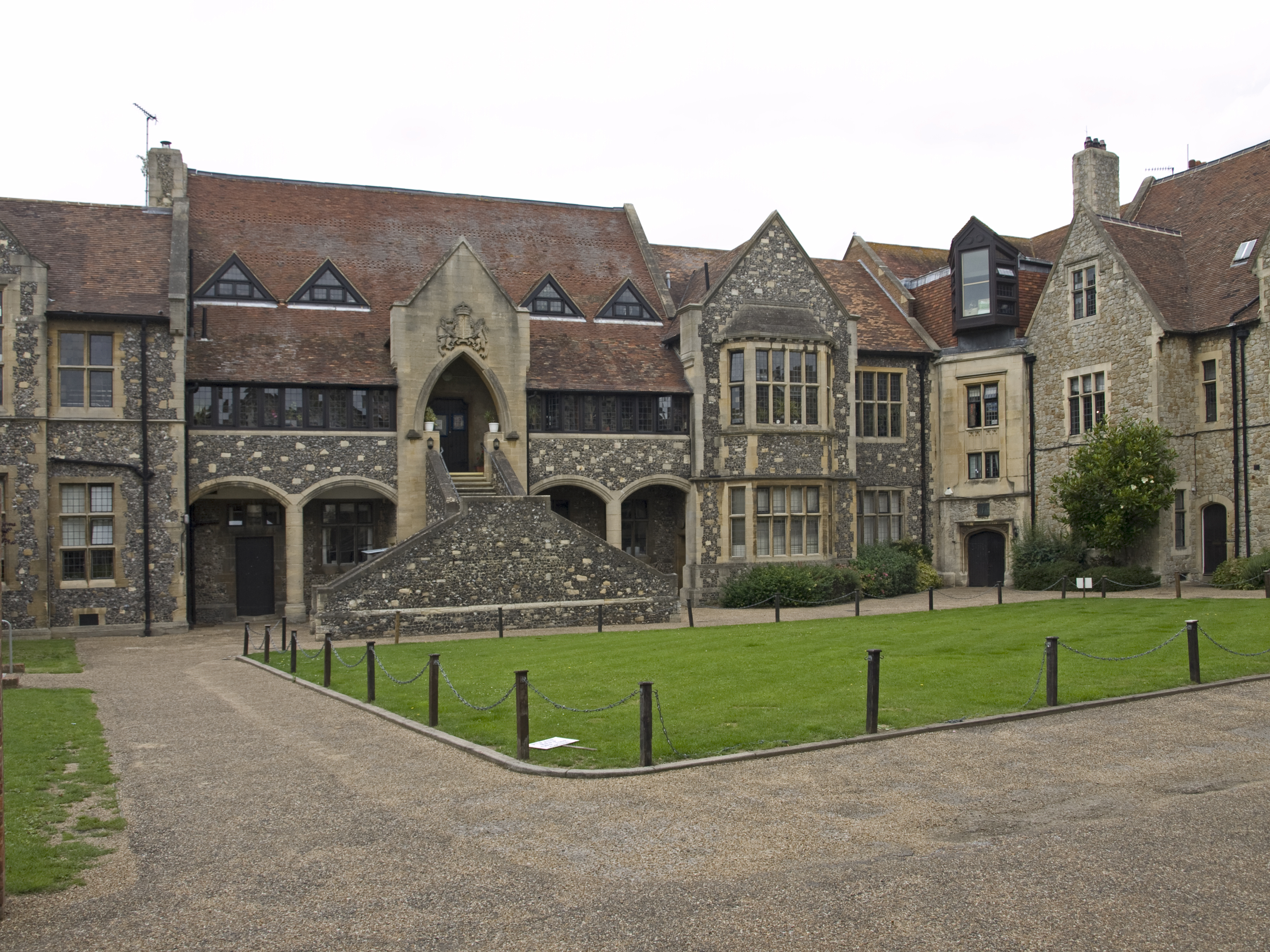 The inner of Mint Yard, Kings School, Canterbury